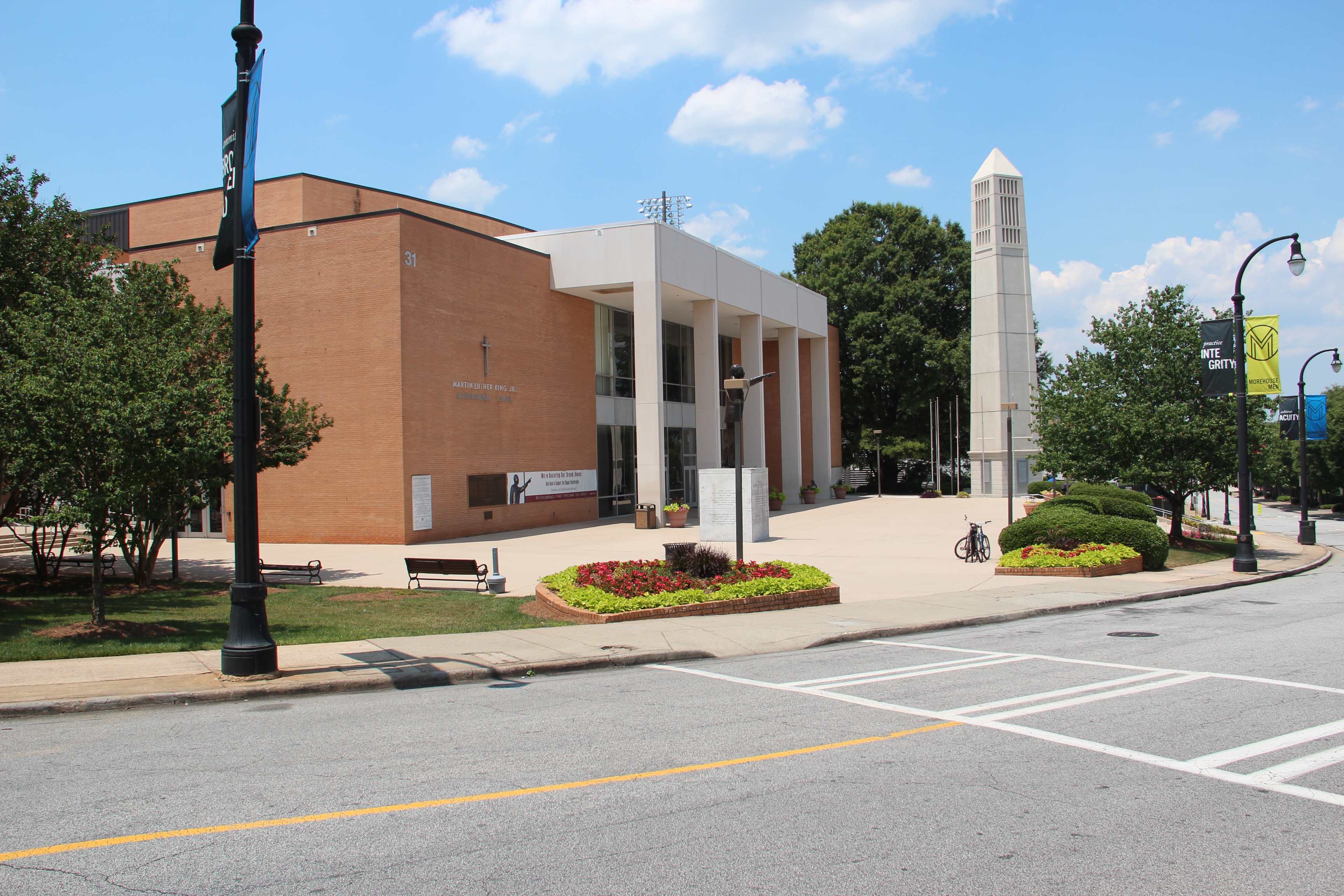 MLK International Chapel, Morehouse College